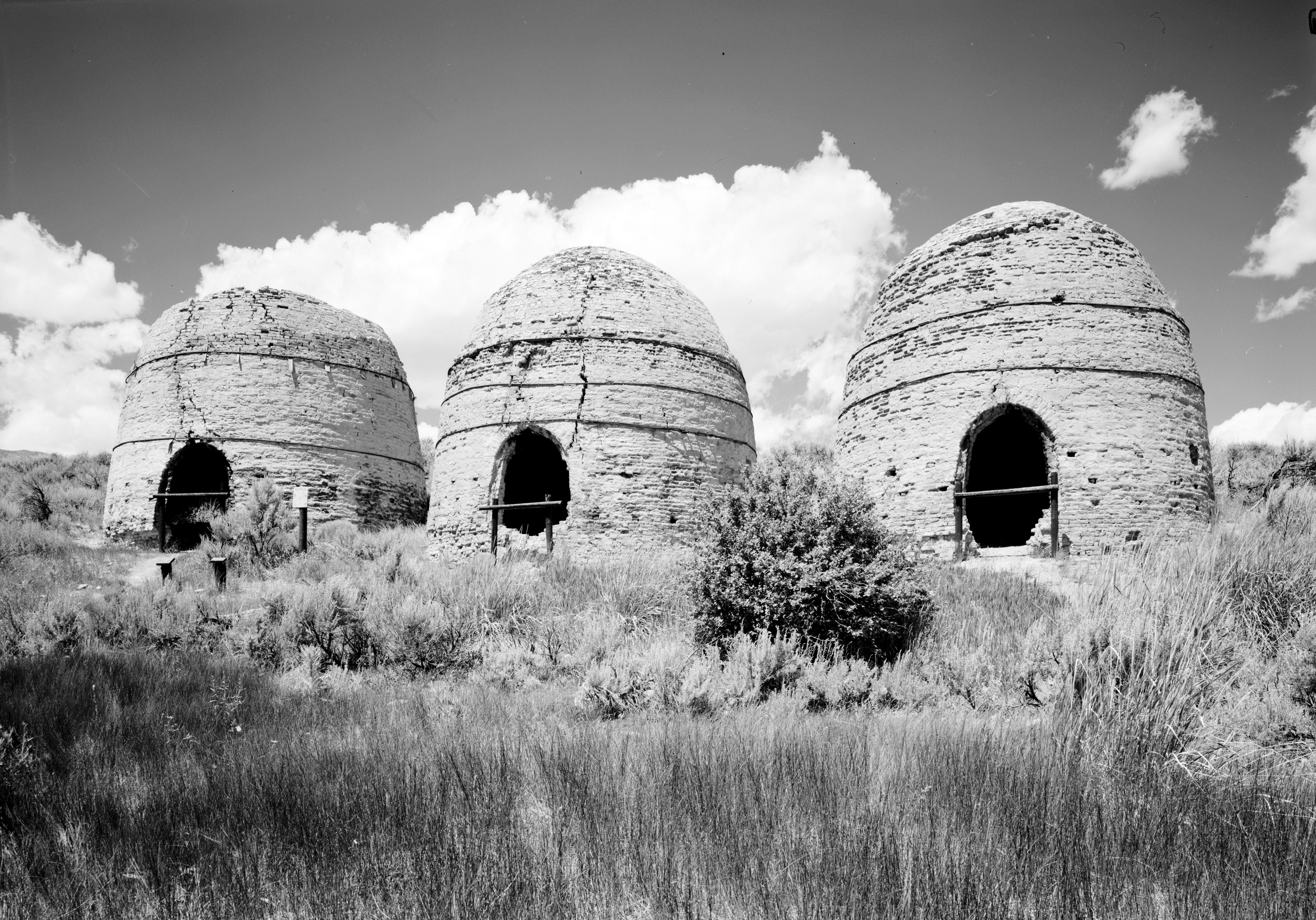 The Charcoal Kilns located off State Highway 28 near Leadore, Idaho, United States. The kilns are listed on the National Register of Historic Places.